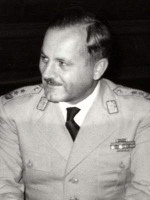 Inventarski broj: 1960 133 049